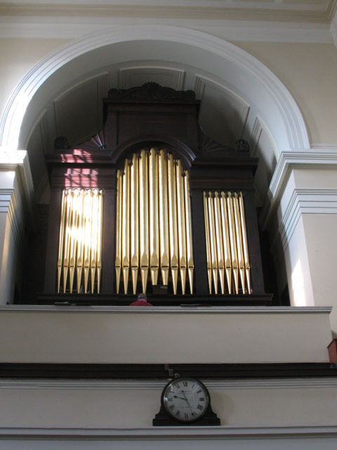 The organ in St James's church. The case of the organ in 970059 was designed by James Savage, the architect of the building. The workings are by J.C. Bishop; it is a manual organ, virtually unaltered since it was built, and restored in the early years of the 21st century to its original condition. More details at